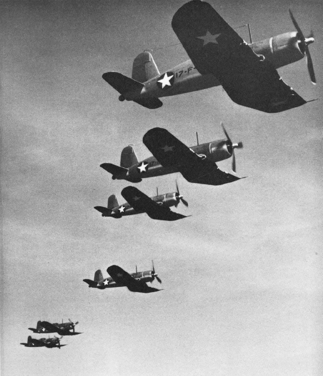 U.S. Navy Vought F4U-1 Corsairs of Fighter Squadron 17 (VF-17) "Jolly Rogers" in flight, in 1943.